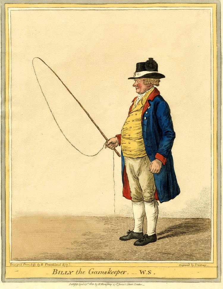 Billy the Gamekeeper, portrait of Bates, gamekeeper to George III of the United Kingdom.